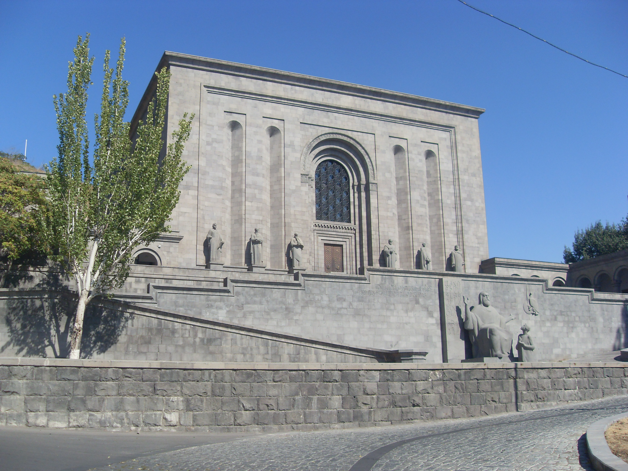 Matenadaran, 1957, archit Mark Grigoryan 6/81